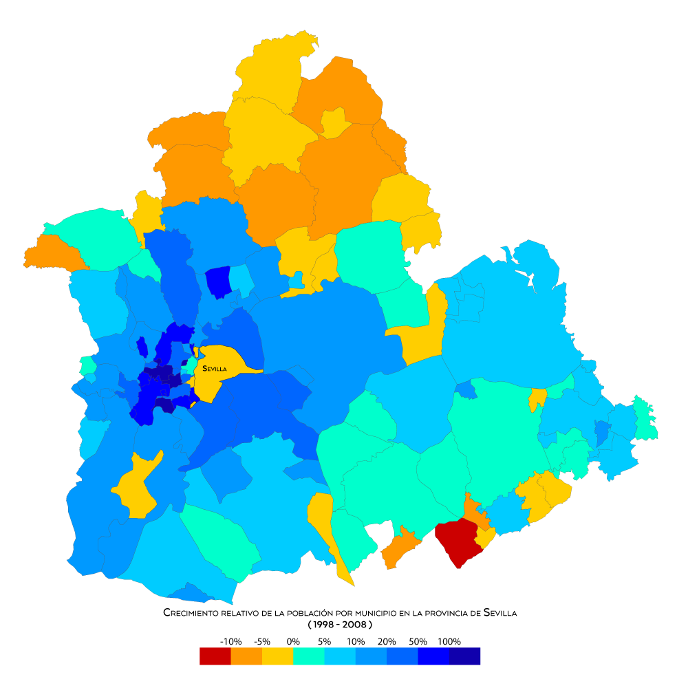 Population growth en the province of Seville (Spain) between 1998 and 2008